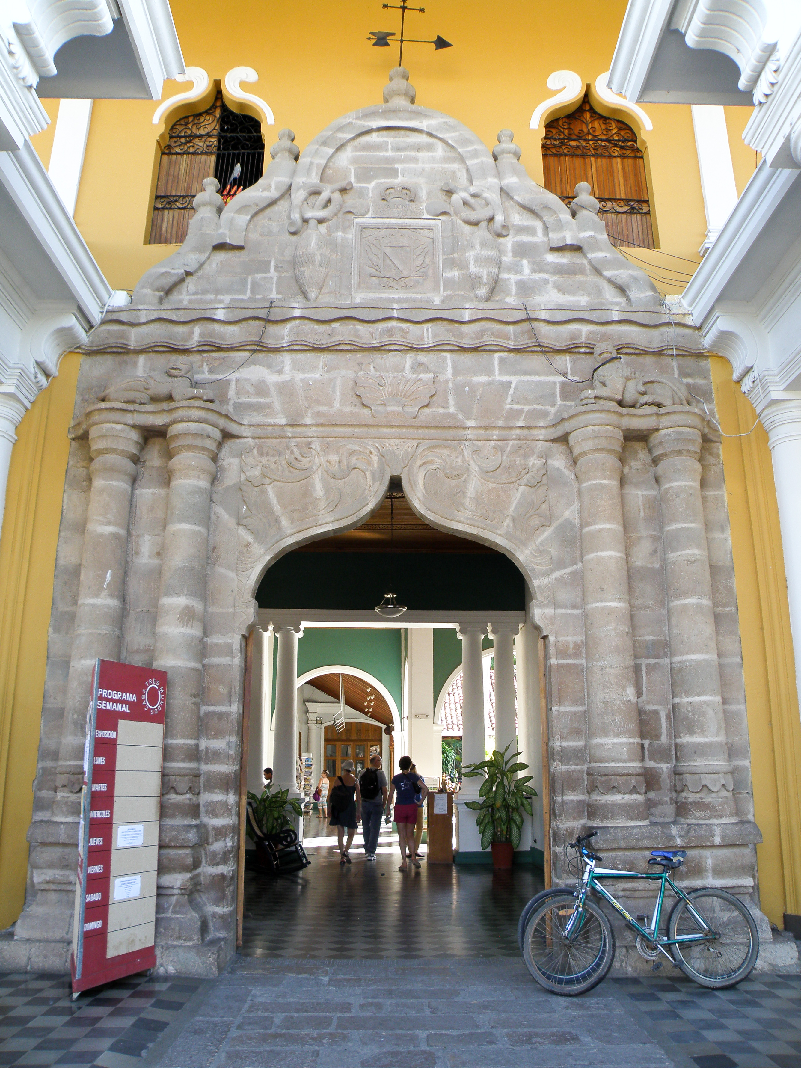 The San Francisco Convent with its splendid Moorish-inspired porch is now the Cultural Center and Museum of Granada.